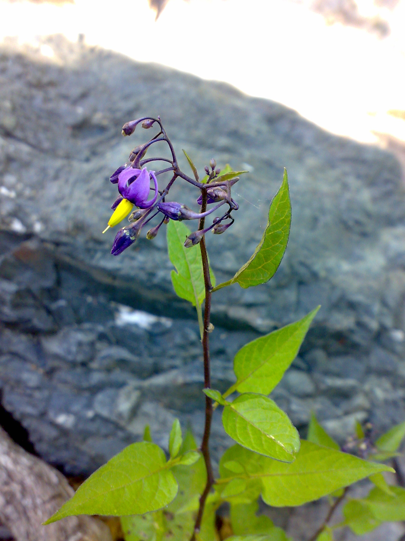 Solana dulcamara in Hurum Norway